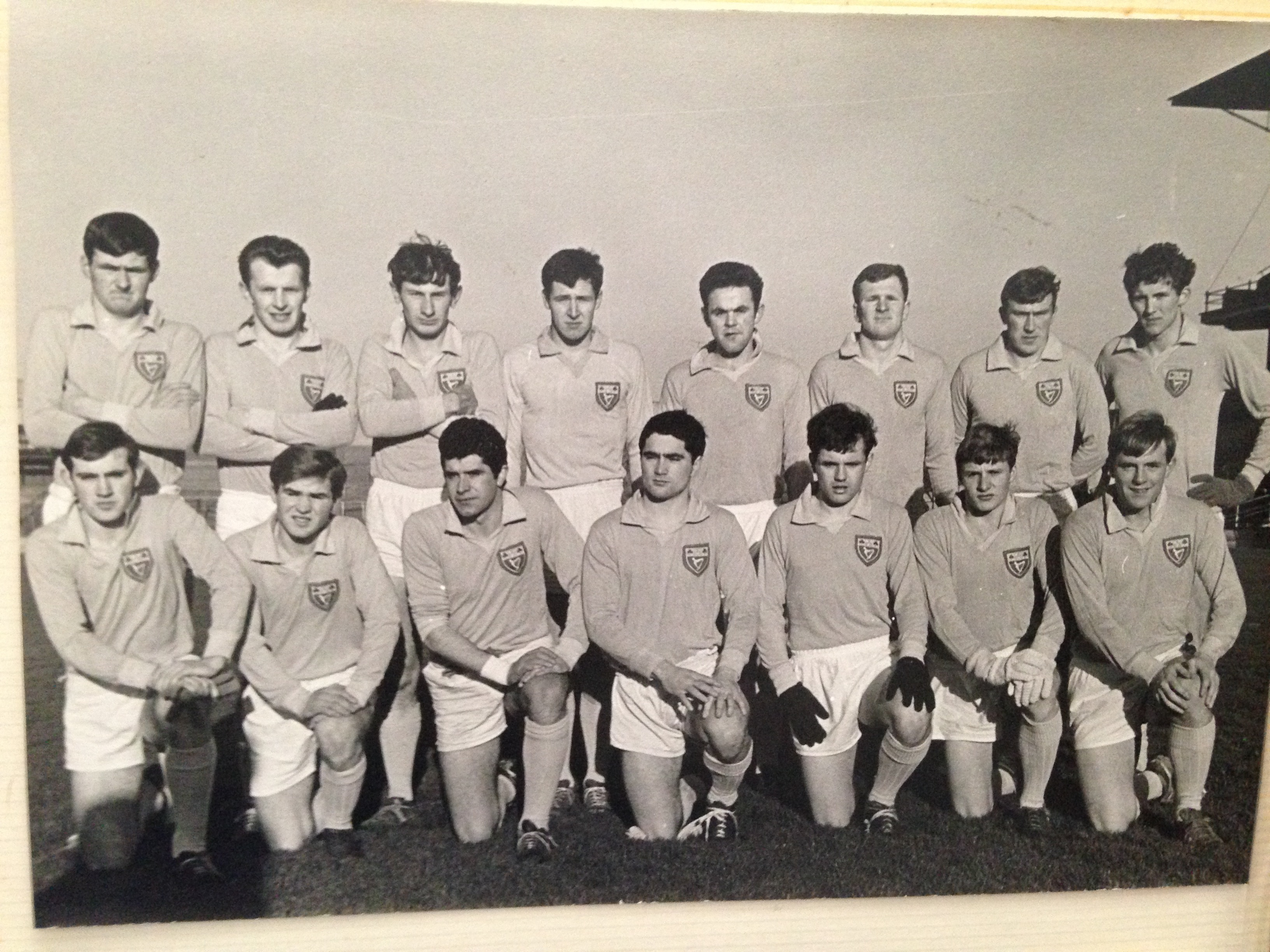 Picture of the Ucd sigerson cup winning team 1968 just prior to the final in Croke Park on 28th January 1968